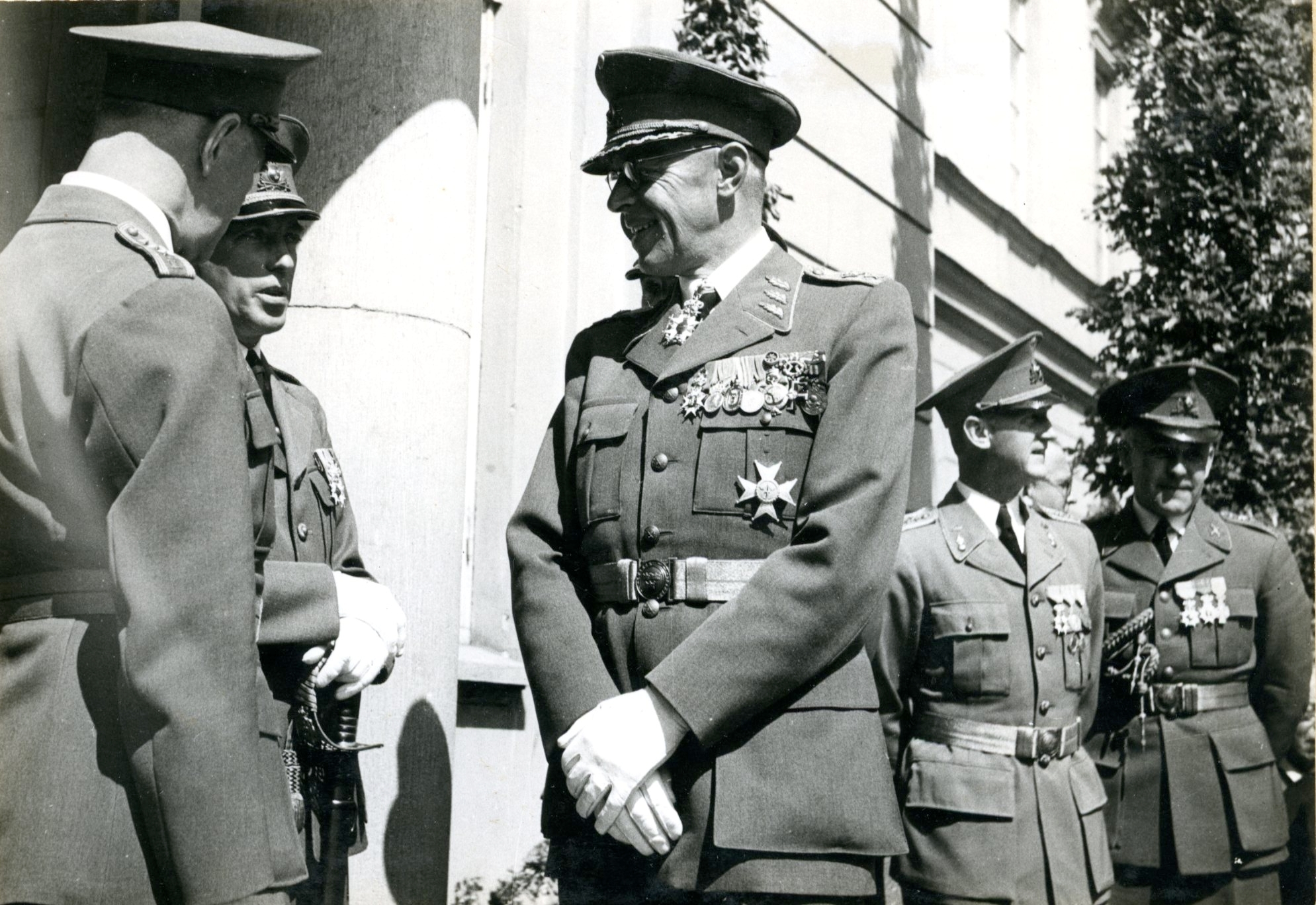 50th anniversary of Småland Artillery Regiment (A 6). From right: Chief of Staff in the I Military District, Lieutenant Colonel John Maule, regimental officer in the I Military District Staff, Lieutenant Colonel Arne Ekstrand (formerly at A 6), Major General Viking Tamm, commander of the Artillery Combat School, Colonel Karl Ångström. The anniversary was celebrated on 6 June.